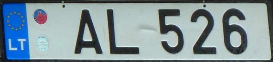 Lithuanian license plate for trailers